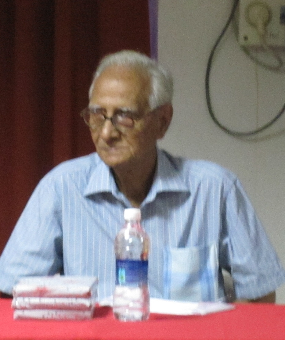 Tamil Writer Asokamitran at the book launch function of Pavithra Srinivasan's translation of Kalki's Sivakamiyin Sabadham at Chennai